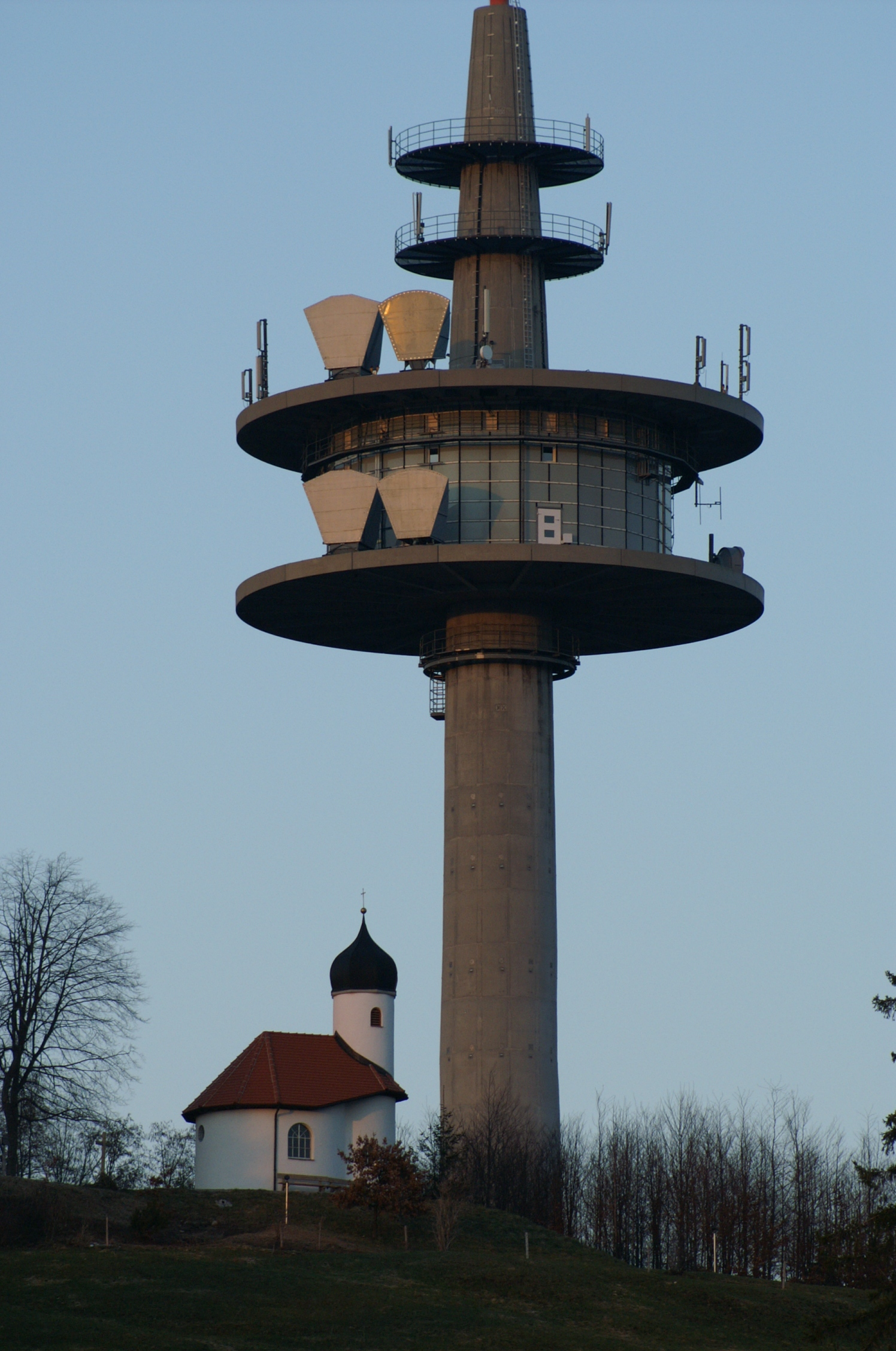 Neue Kapelle auf dem Weichberg (967 m)